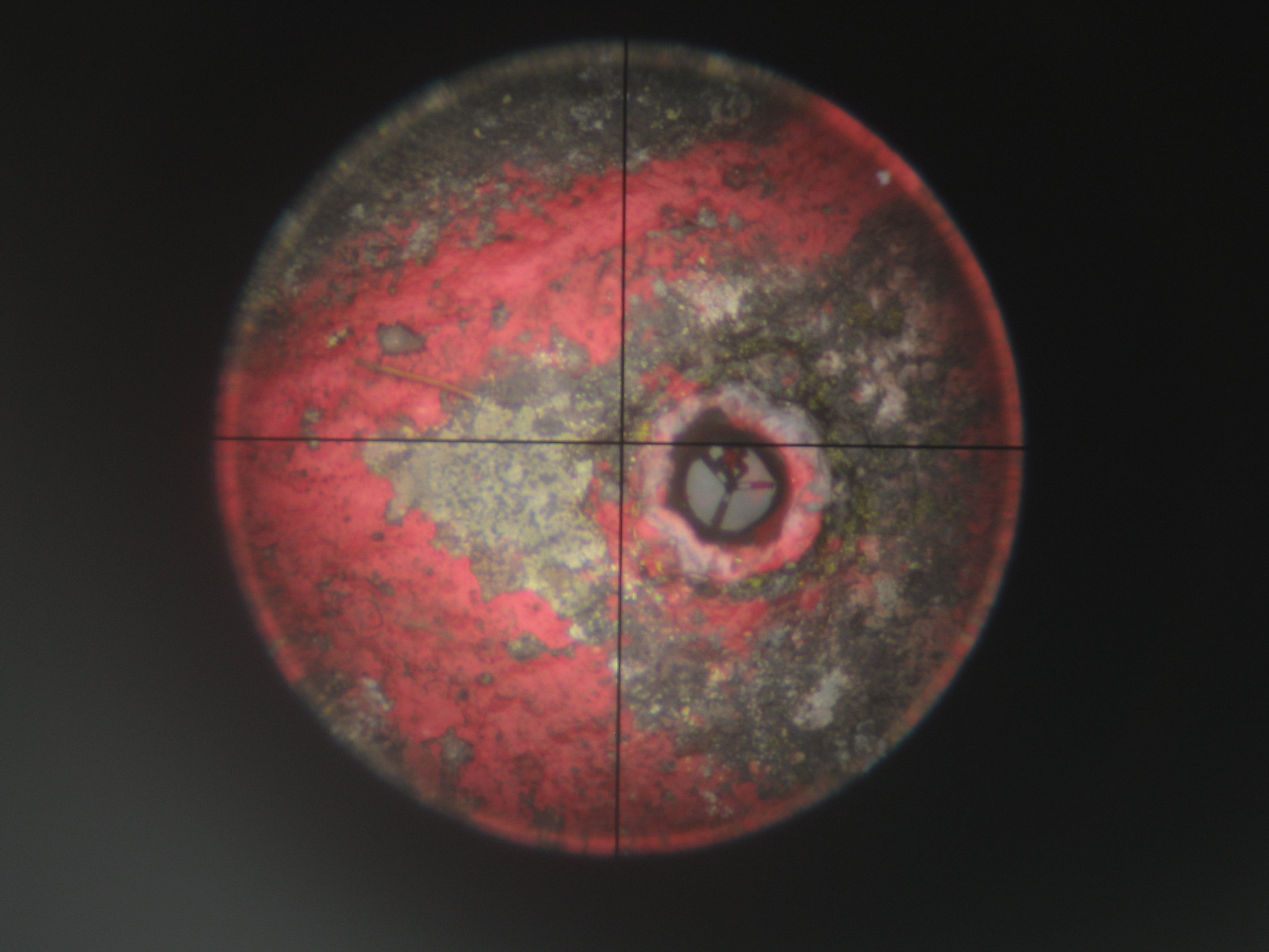 Photo of a point in a municipal control network through the optical plummet of a prism adapter on a tribrach on a surveyers tripod. There is obviously a big centering error. When the tribrach is properly centered above the point, the crosshairs will split the inner diameter of the tube in four equal pieces. Photo taken in Vaxholm in the Stockholm archipelago in Sweden.